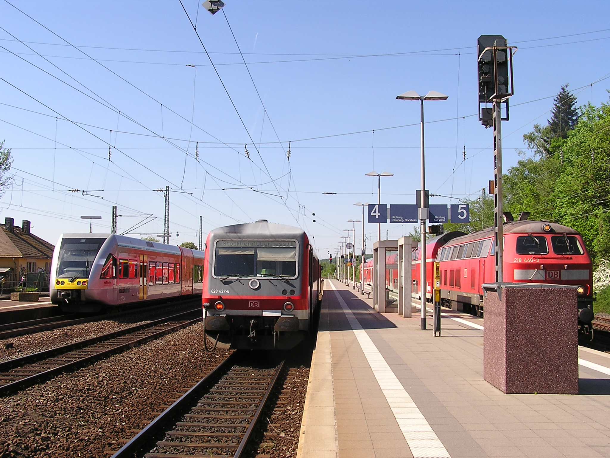 GTW 2/6 (HLB), Class 628 and Class 218 with bilevel cars in the Station Nidderau